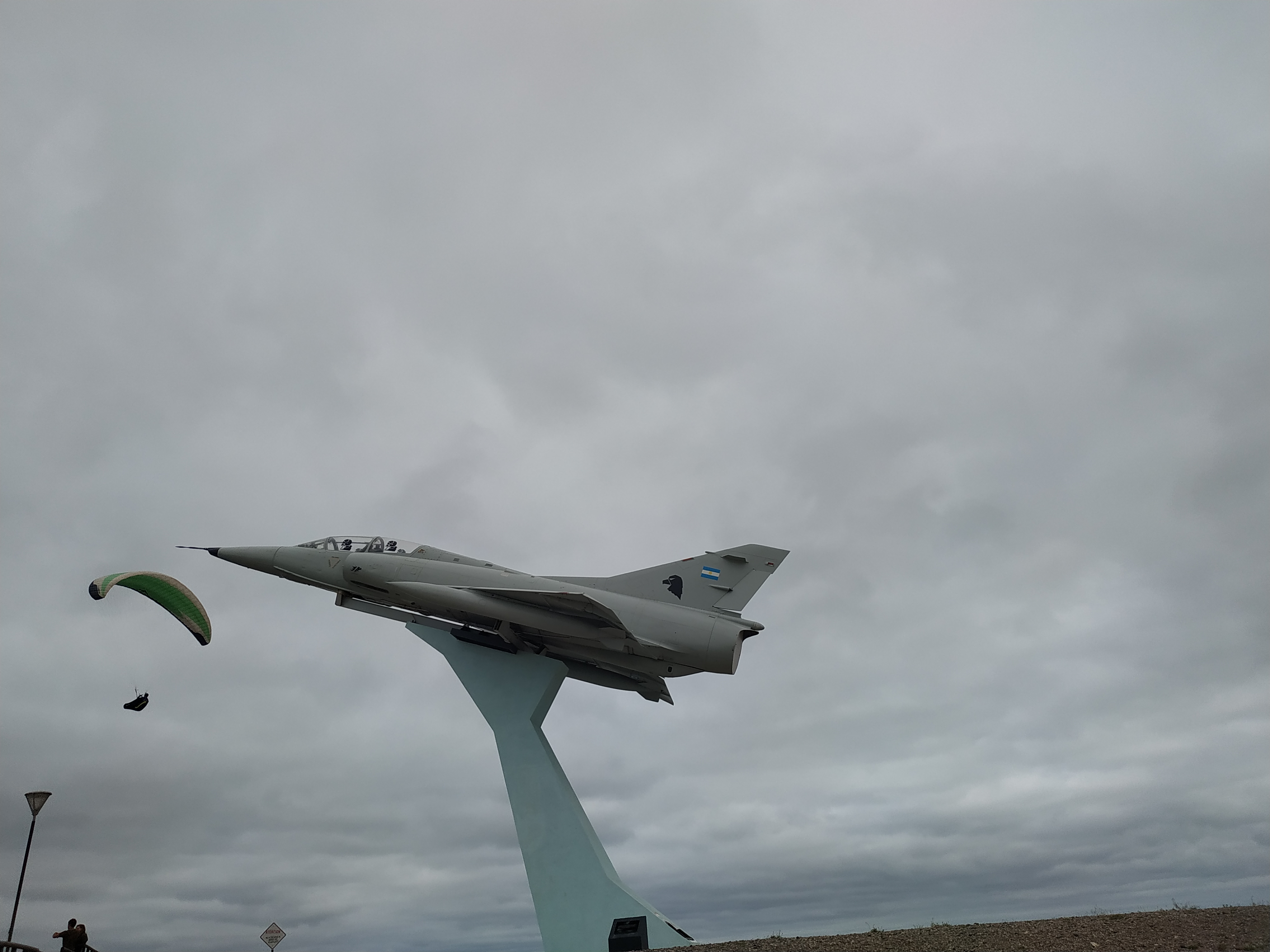 Avión Mirage en el Memorial de Malvinas ubicado en el Balneario El Cóndor, Río Negro, Argentina.